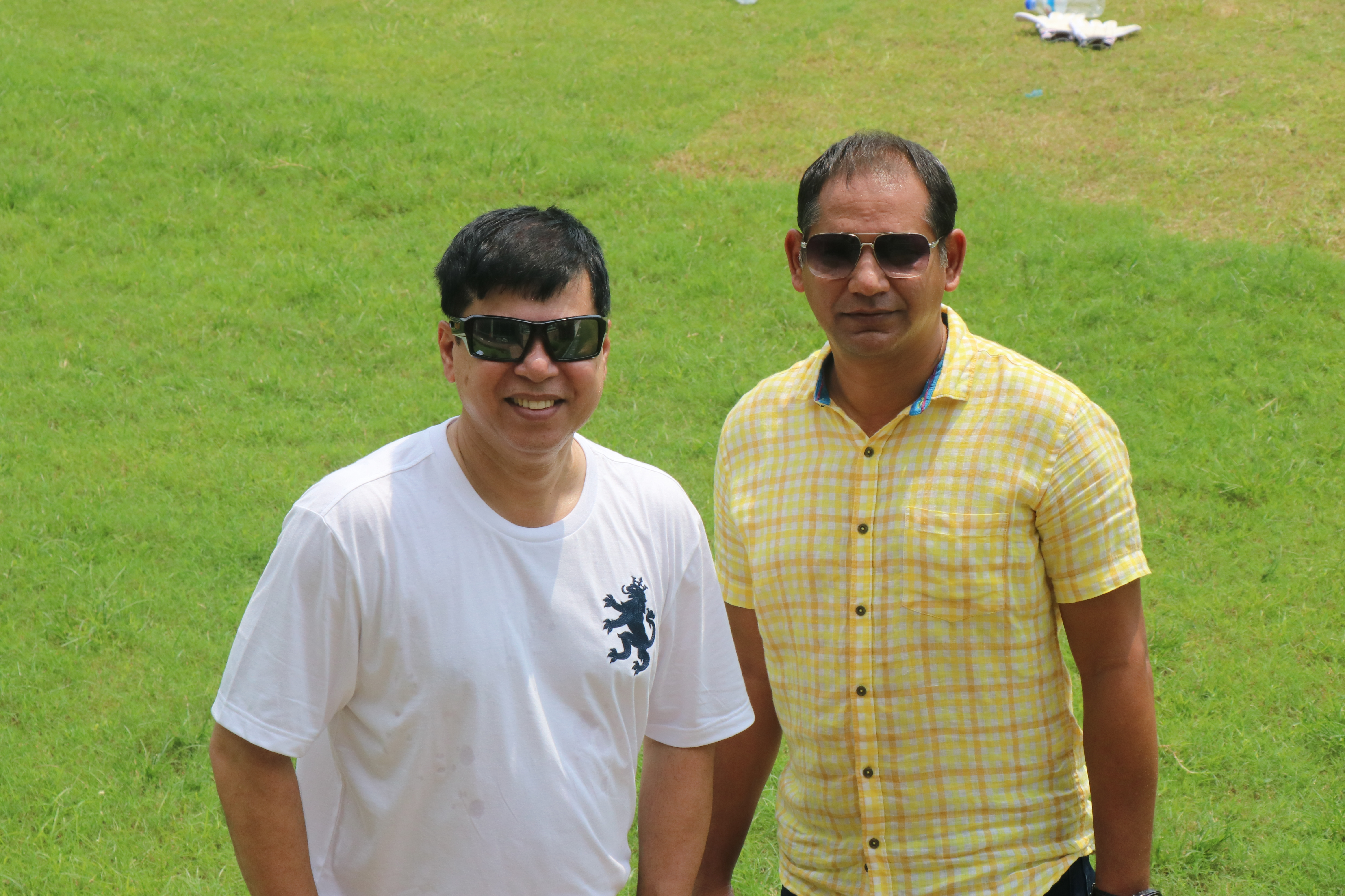 Minhajul Abedin and Habibul Bashar, the former crickter of Bangladesh National Cricket Team